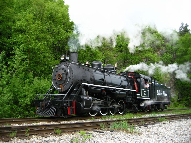 White Pass and Yukon Route Steam Locomotive 73 /Working steam locomotive! (Narrow gauge tracks too!)